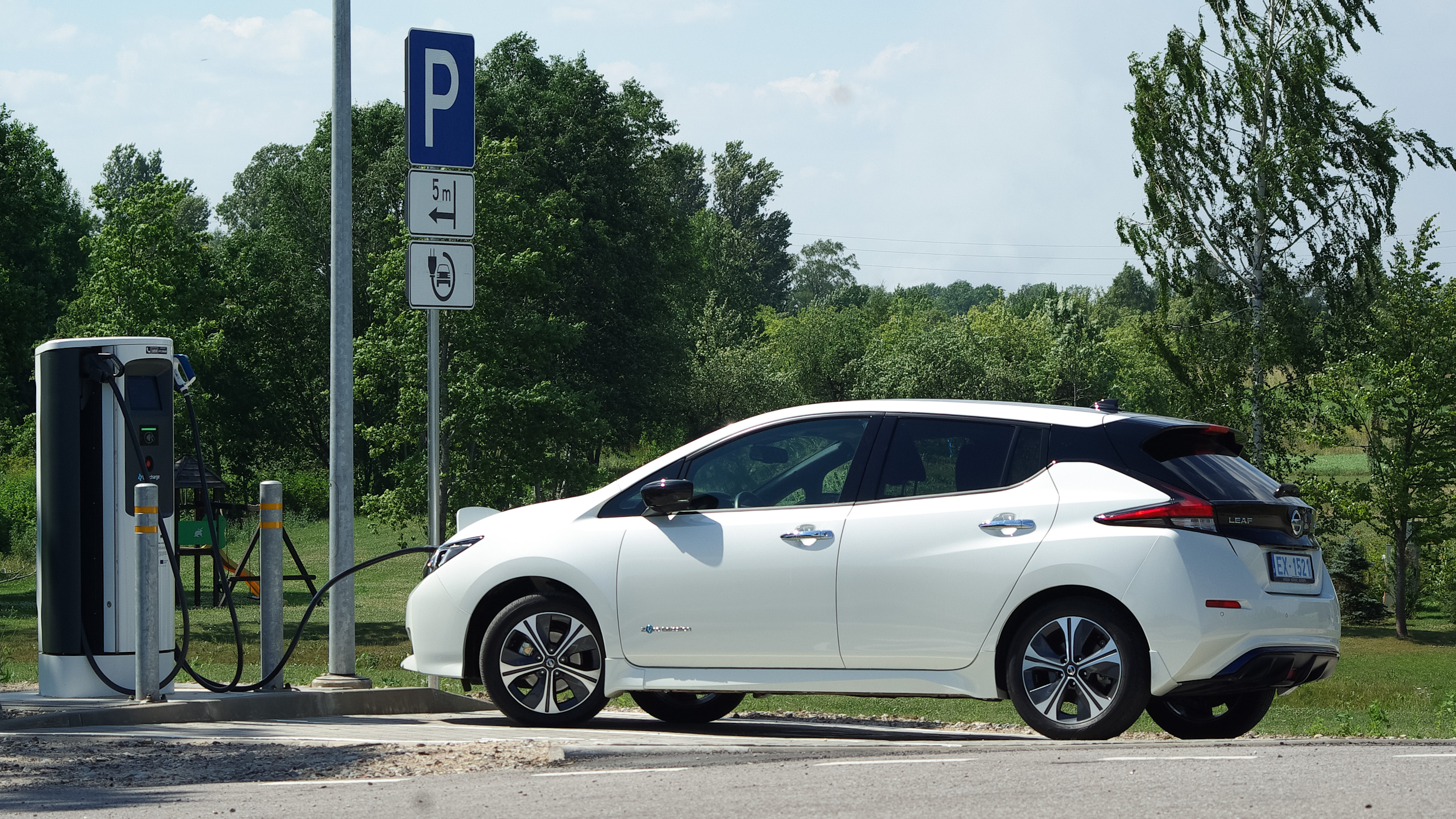 Second generation (2017–present) Nissan Leaf in the quick charging station in Talsi municipality, Latvia.